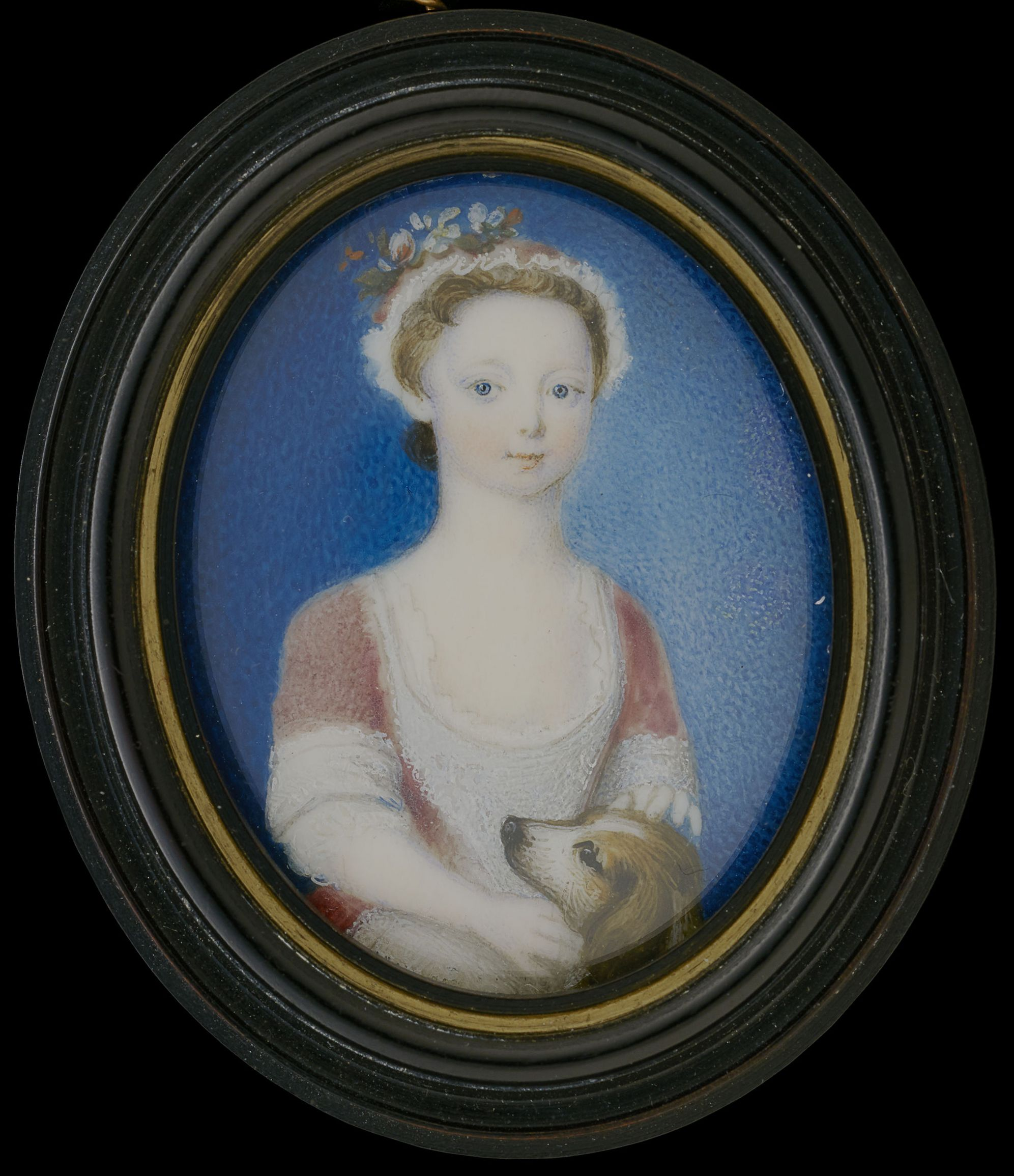 Dimensions Oval; 4.4 cm